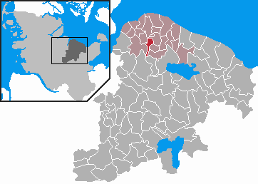 This map shows the area of the Gemeinde (municipality) Passade in the Kreis (district) Plön, Schleswig-Holstein, Germany.